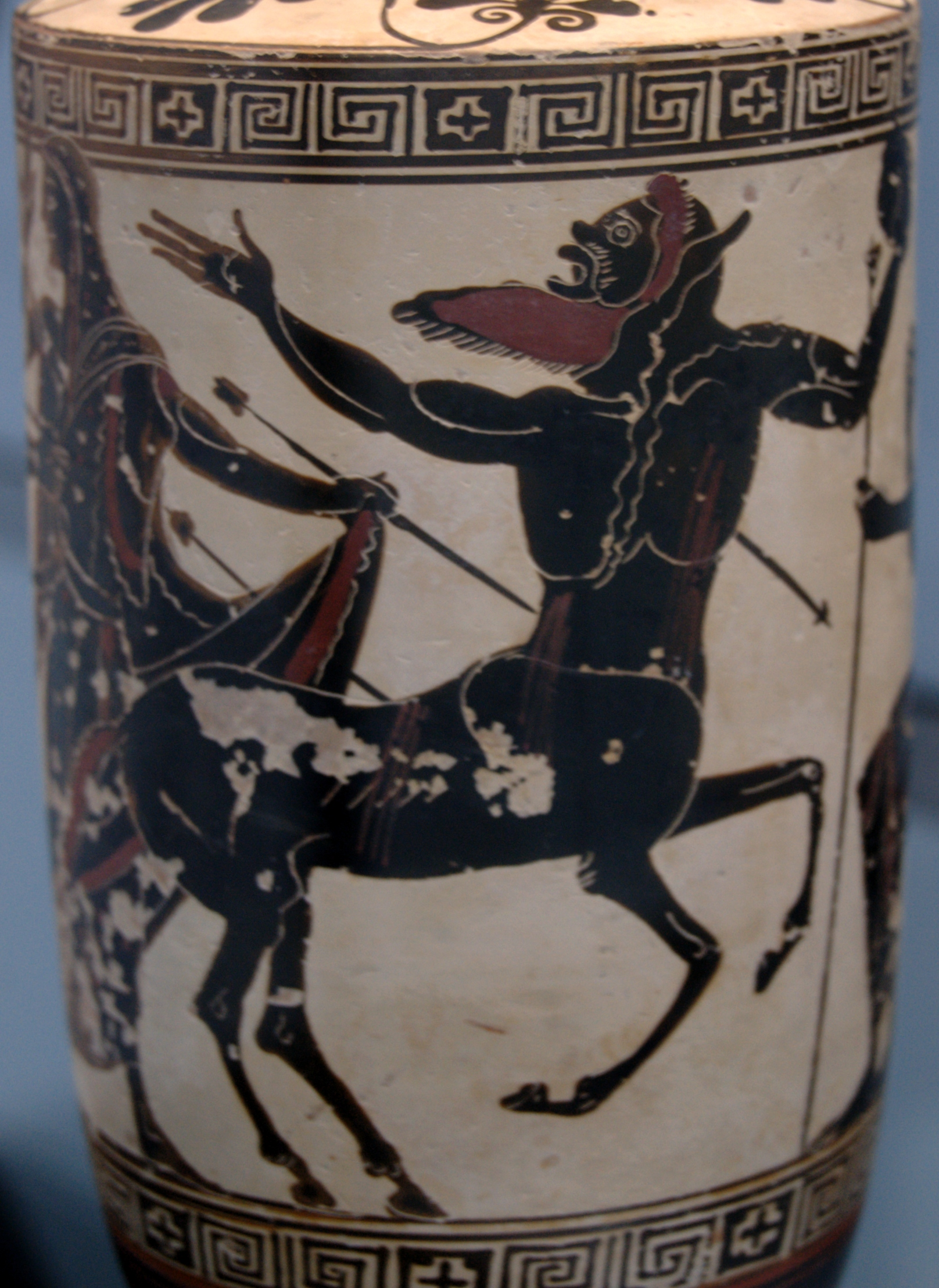 Nessus transpierced by Heracles' arrows, Deianira fleeing to her husband (left). Attic white-ground lekythos, ca. 500 BC. From Sicily.